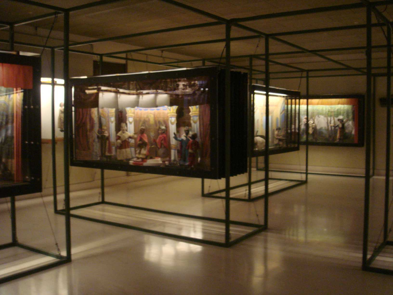 Museo de Cádiz (Inventory)Native nameMuseo de CádizLocationCádiz, (Spain)Coordinates36° 32′ 05.77″ N, 6° 17′ 47″ W Established1838Web page[1]Authority control : Q11694568 VIAF: 131103033 ISNI: 0000 0001 2259 7678 LCCN: n83182989 BIC: RI-51-0001338 GND: 16322630-1 WorldCat institution QS:P195,Q11694568